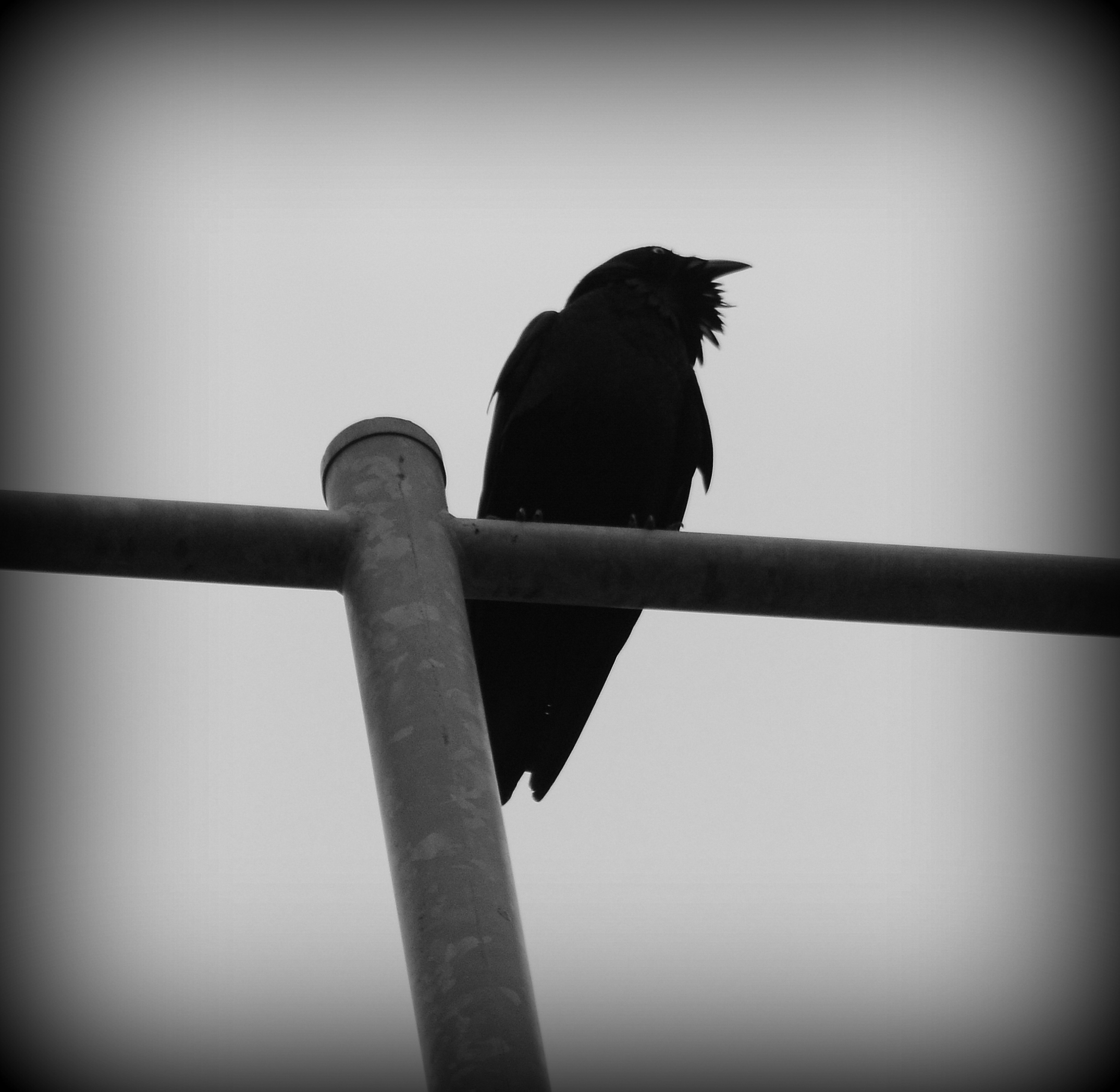 Crow, Chatswood shopping centre, Sydney